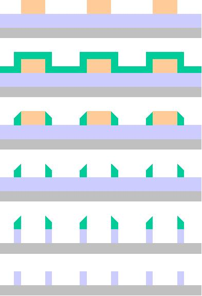 Spacer patterning: First pattern Deposition of mask material Etching to form sidewall spacers Removal of first pattern Etching using remaining spacers as mask Removal of spacers, leaving final pattern